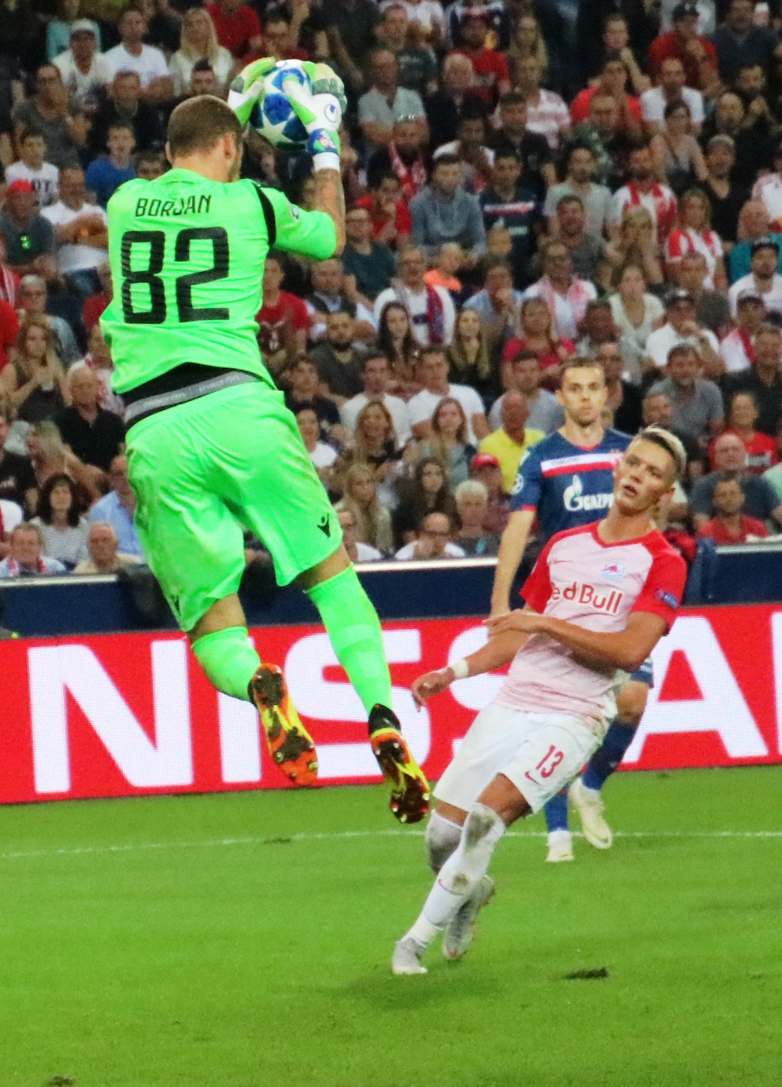 CL PLay off 29. August 2018 2nd leg